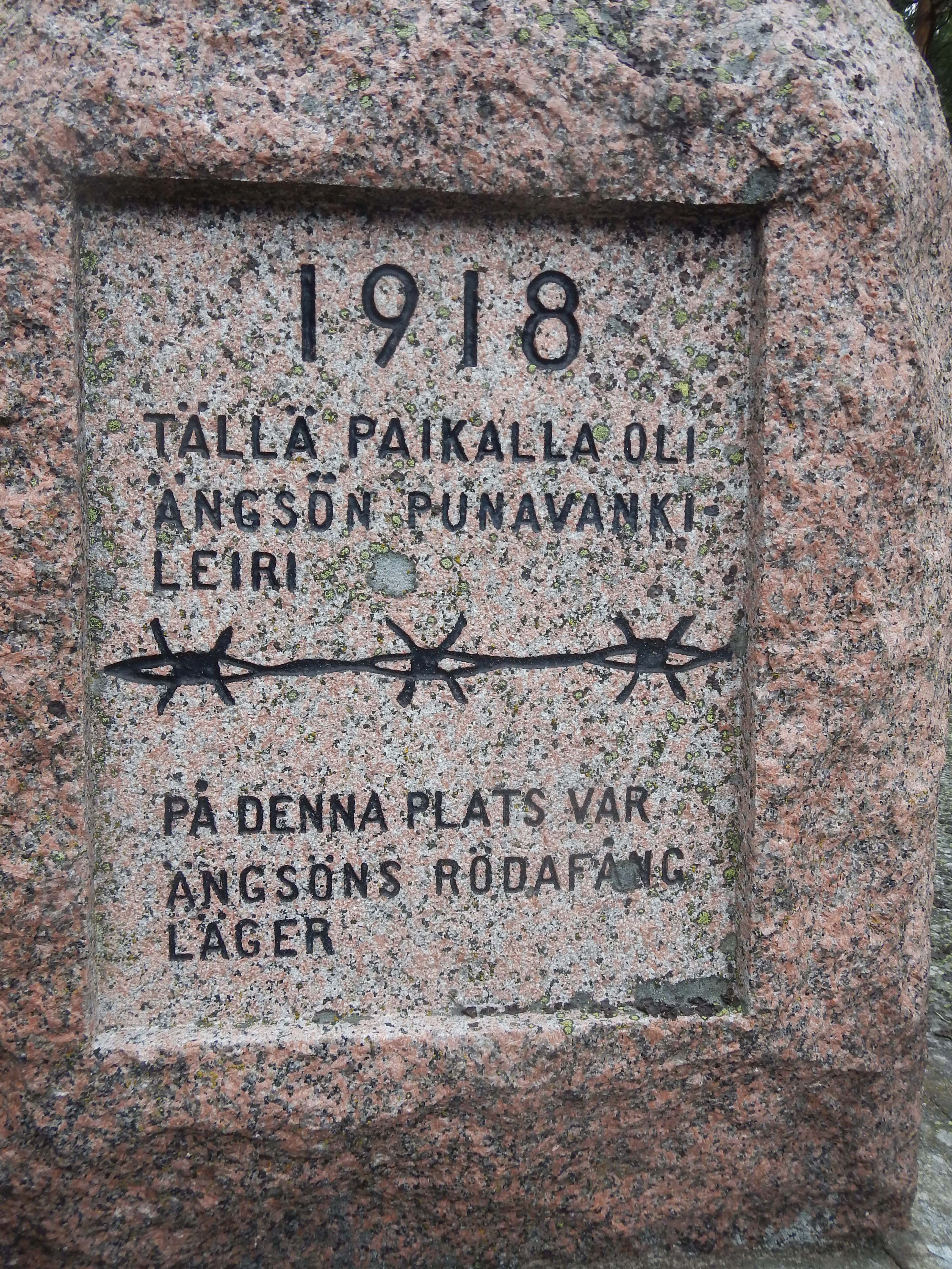 Stone raised in the 1990s to commemorate mostly non-local red prisoners taken during the Finnish Civil War